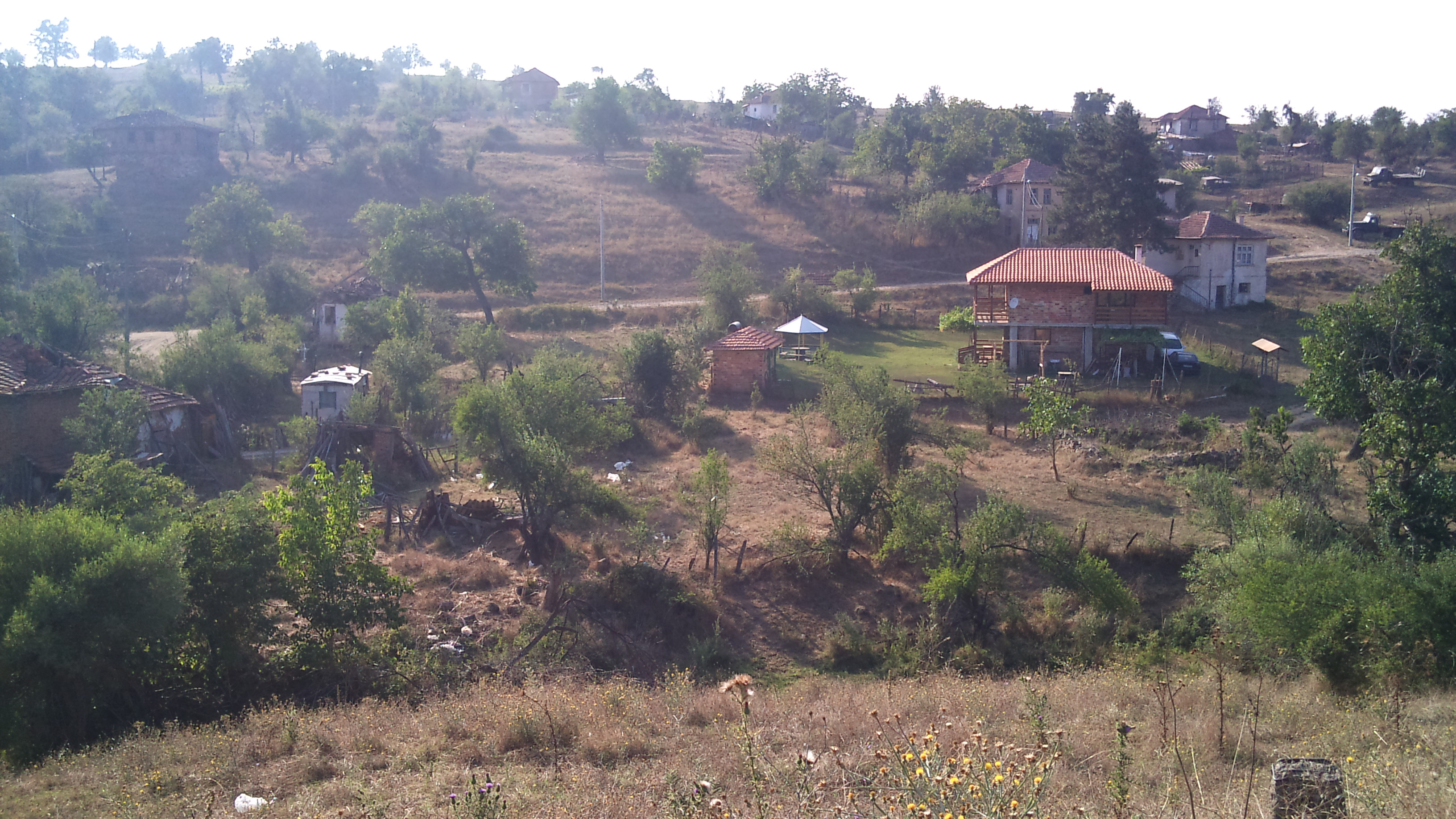 Panorama Belevren